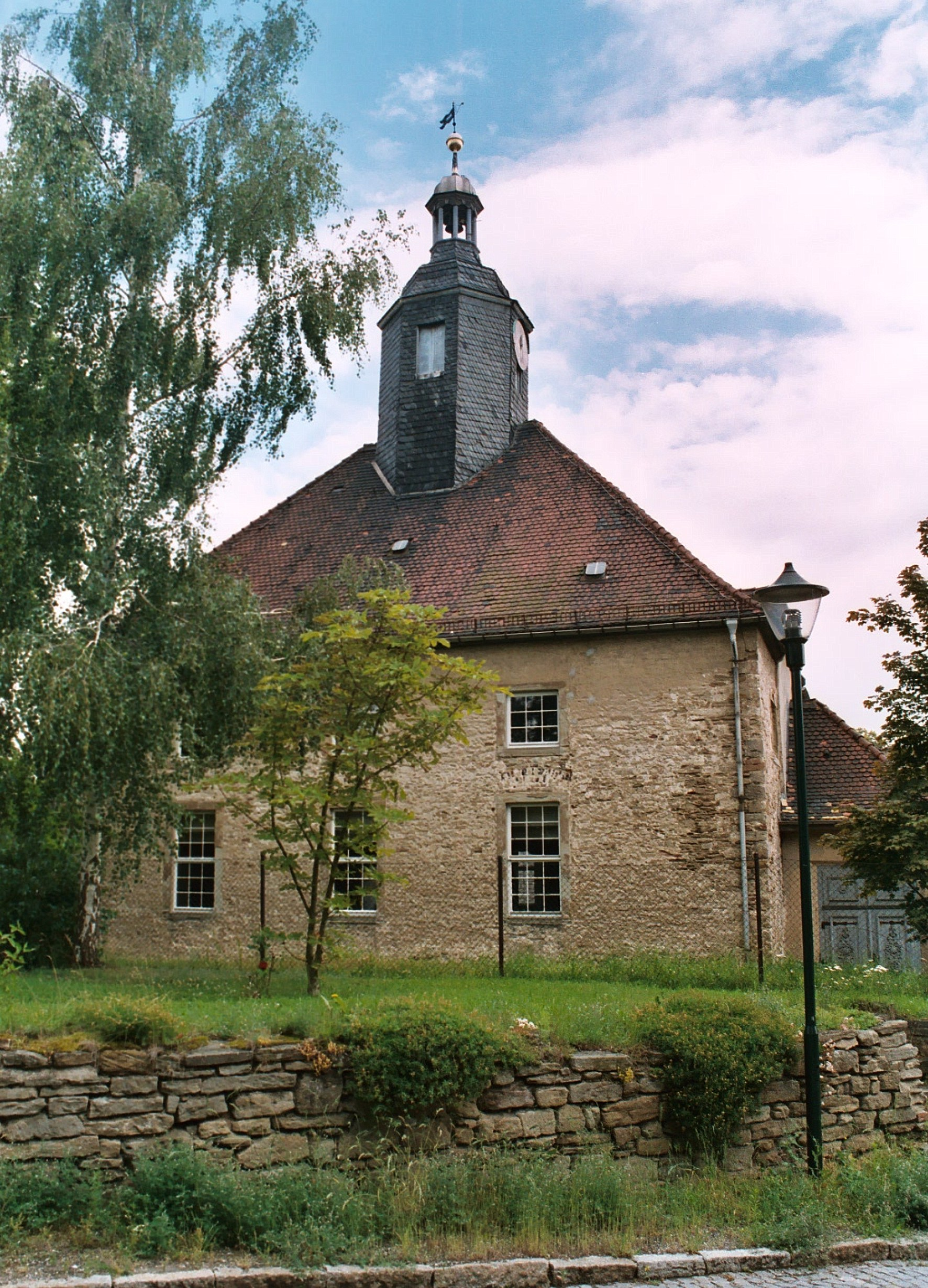 Dobitschen, the village church